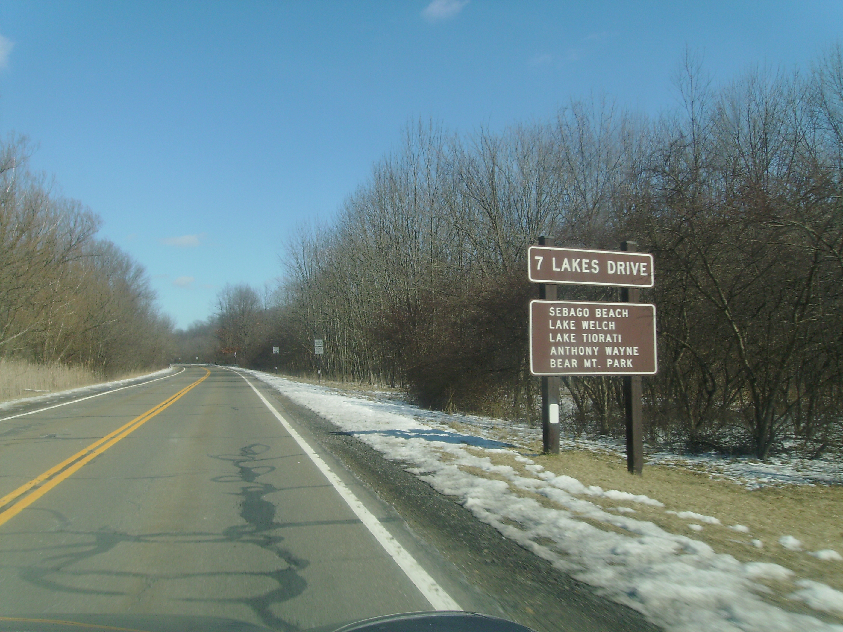 Seven Lakes Drive sign at the border of Harriman State Park.